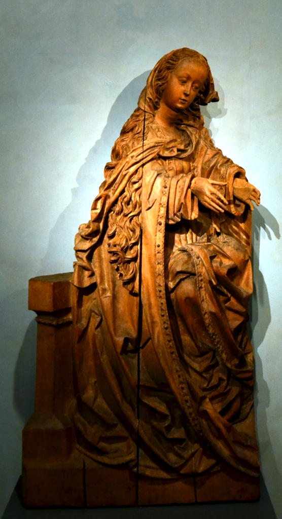 Master of the Kefermarkt Altar, Virgin Mary (part of the sculpture is missing), National Gallery in Prague